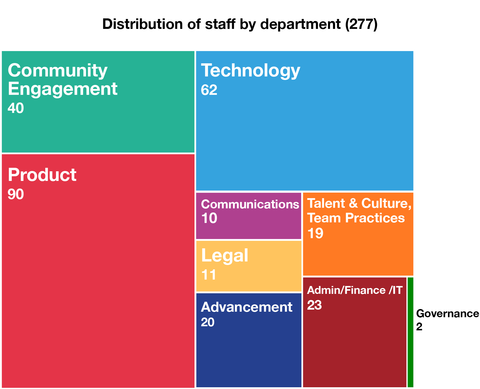 Proportional representation chart of Wikimedia Foundation staff numbers by department for financial year 2016–17